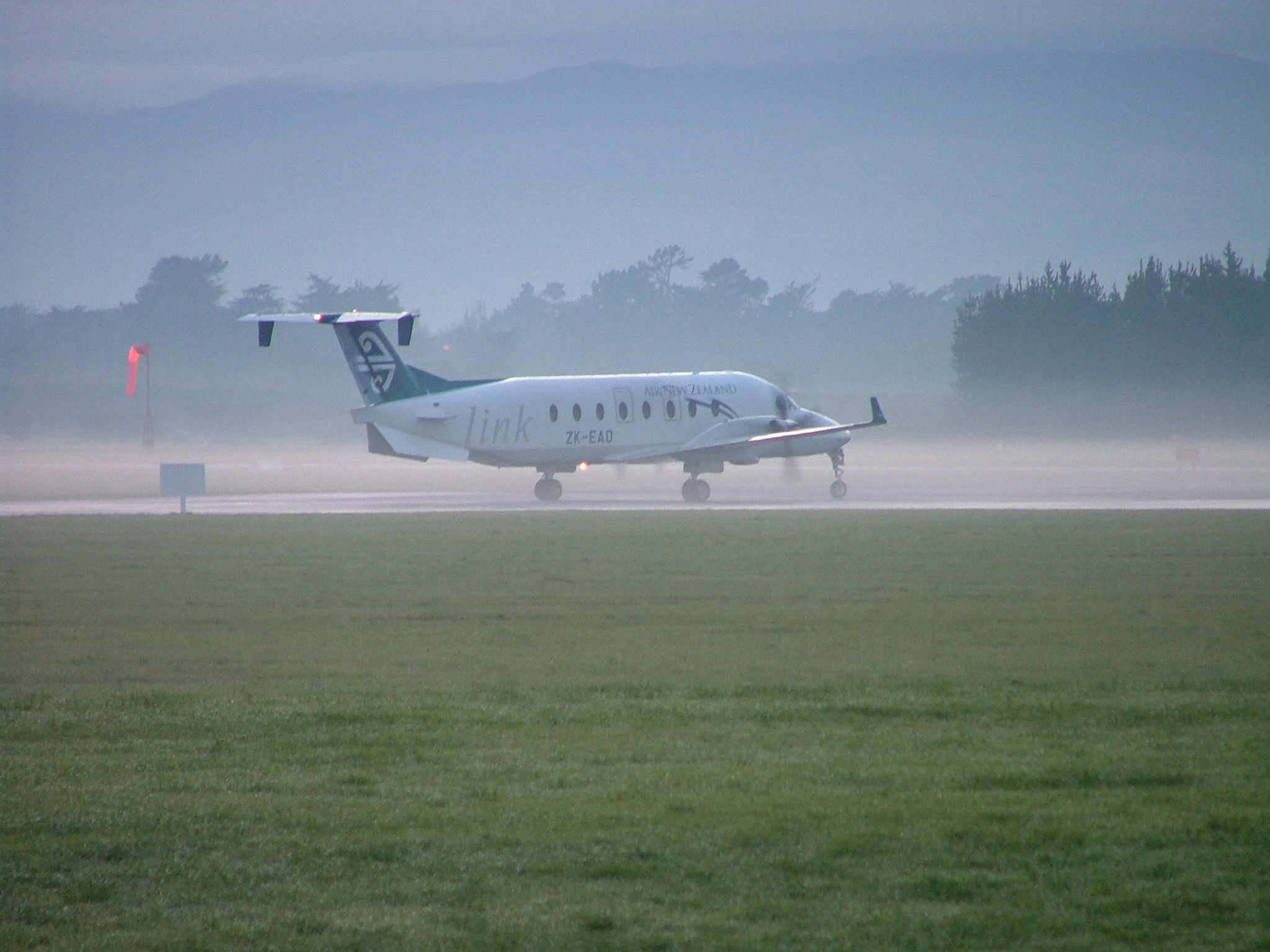 Eagle Airways Beechcraft 1900 at Palmerston North International Airport.